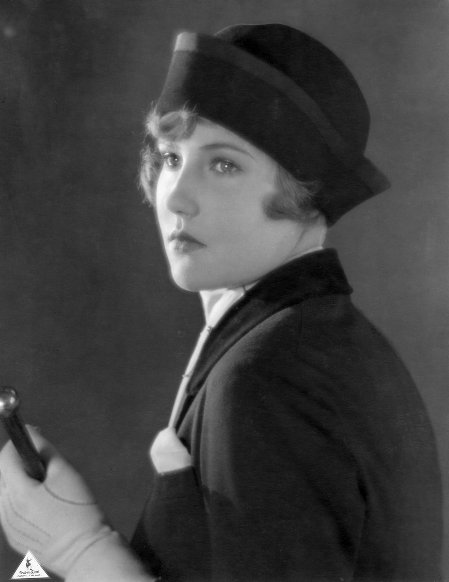 Elsa Segerberg